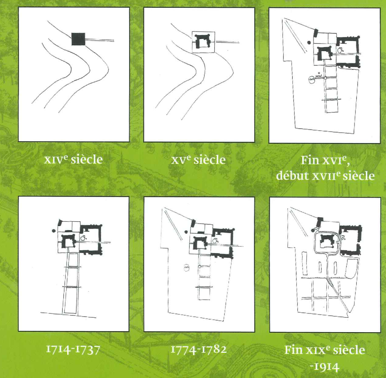 @chateaudurivau